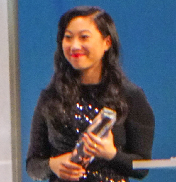 Anne Hathaway at the Human Rights Campaign National Dinner, Washington, DC USA, September 15, 2018